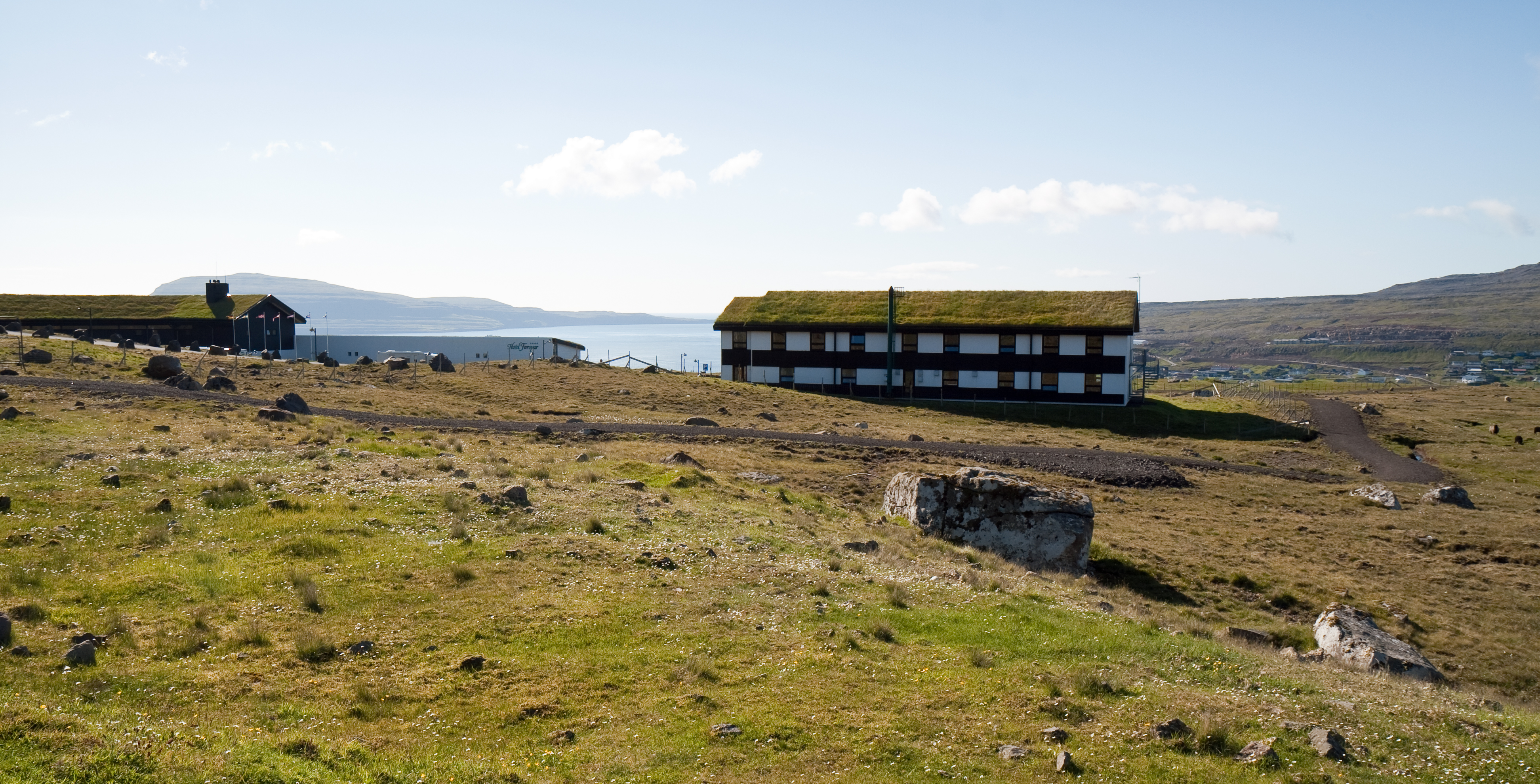 To the right Kerjalon Hostel, our base on the Faroe Islands. Lying high with a view over Thorshavn (down by the water). To the left Hotel Föroyar.